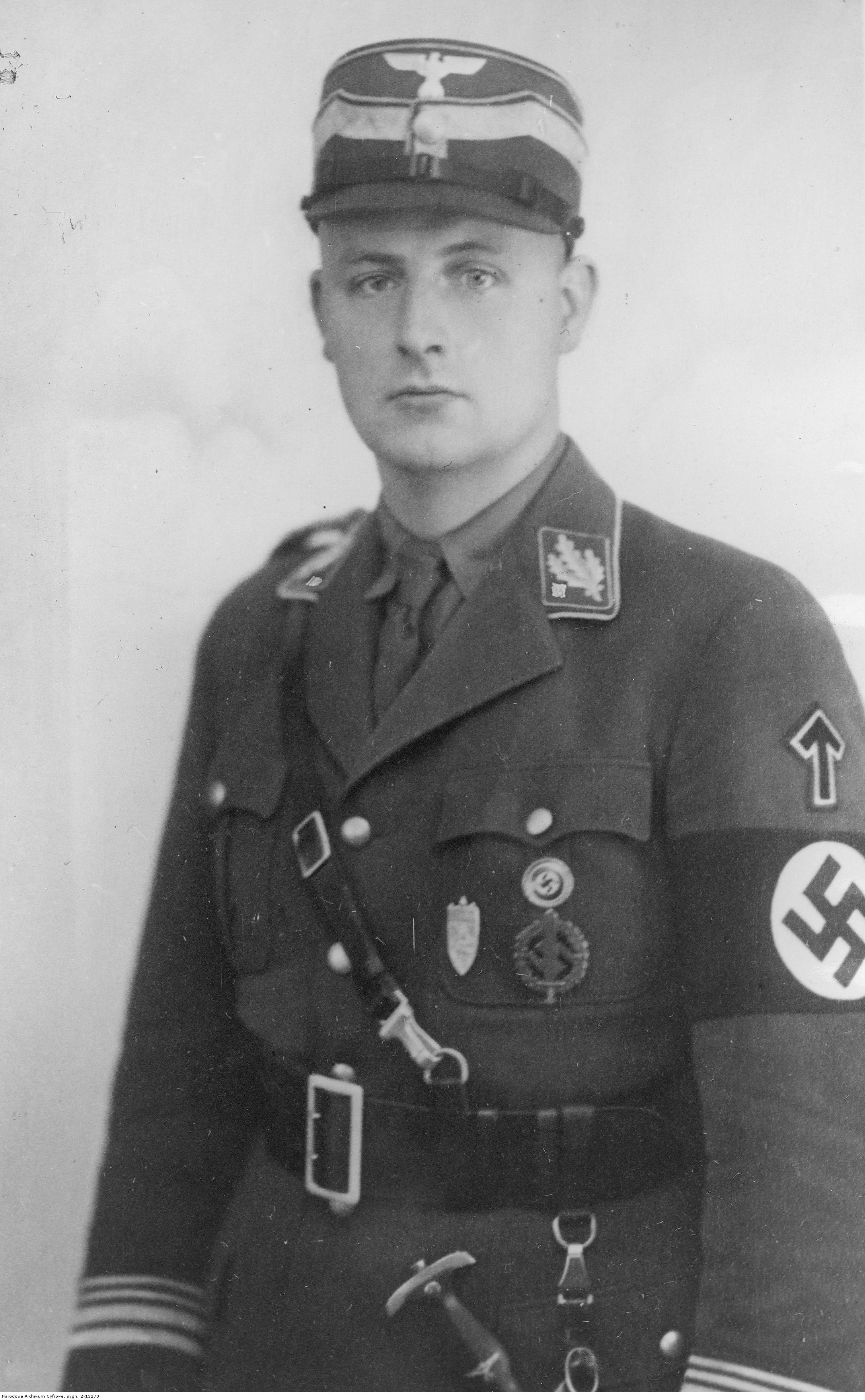 SA-Obergruppenführer Horst Raecke (1906-1941)